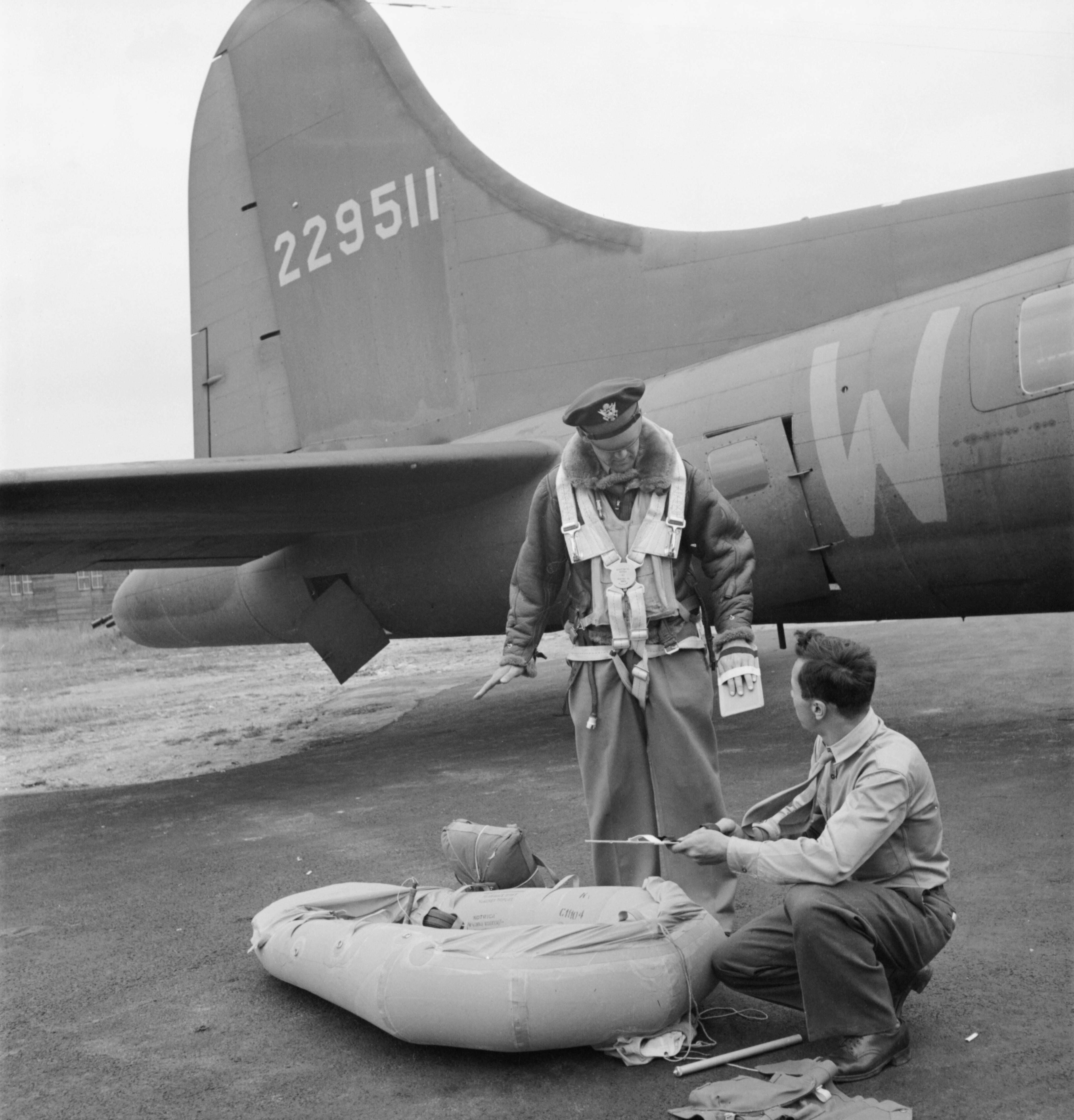 British Equipment at An American Airfield- Anglo-american Co-operation in Wartime Britain, 1943 Lieutenant C J Kelly (left) from Plain Dealing, Louisiana and Corporal A M Gargano from 32nd St., Cleveland, Ohio, inspect a rubber dinghy to be carried by flying officers and crew of the US Air Corps, in front of an aircraft on an airfield somewhere in Britain.